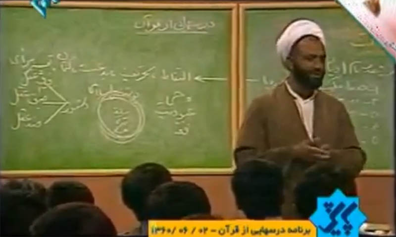 Mohsen Gheraati